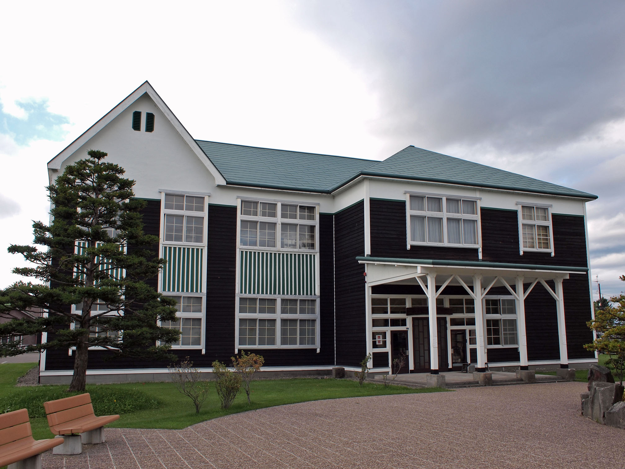 Higashikawa Museum, Higashikawa, Hokkaido, Japan